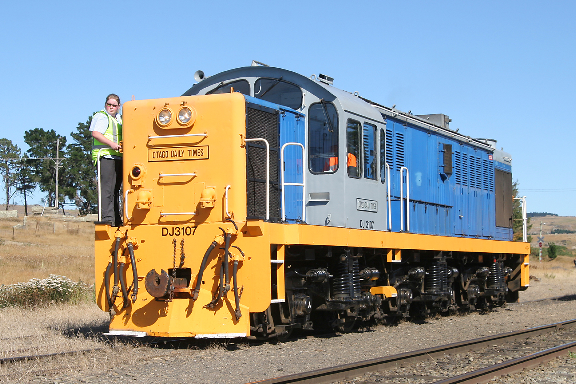 DJ Class No 3107 on the Taieri Gorge Railway. Note Otago Daily Times plaque.